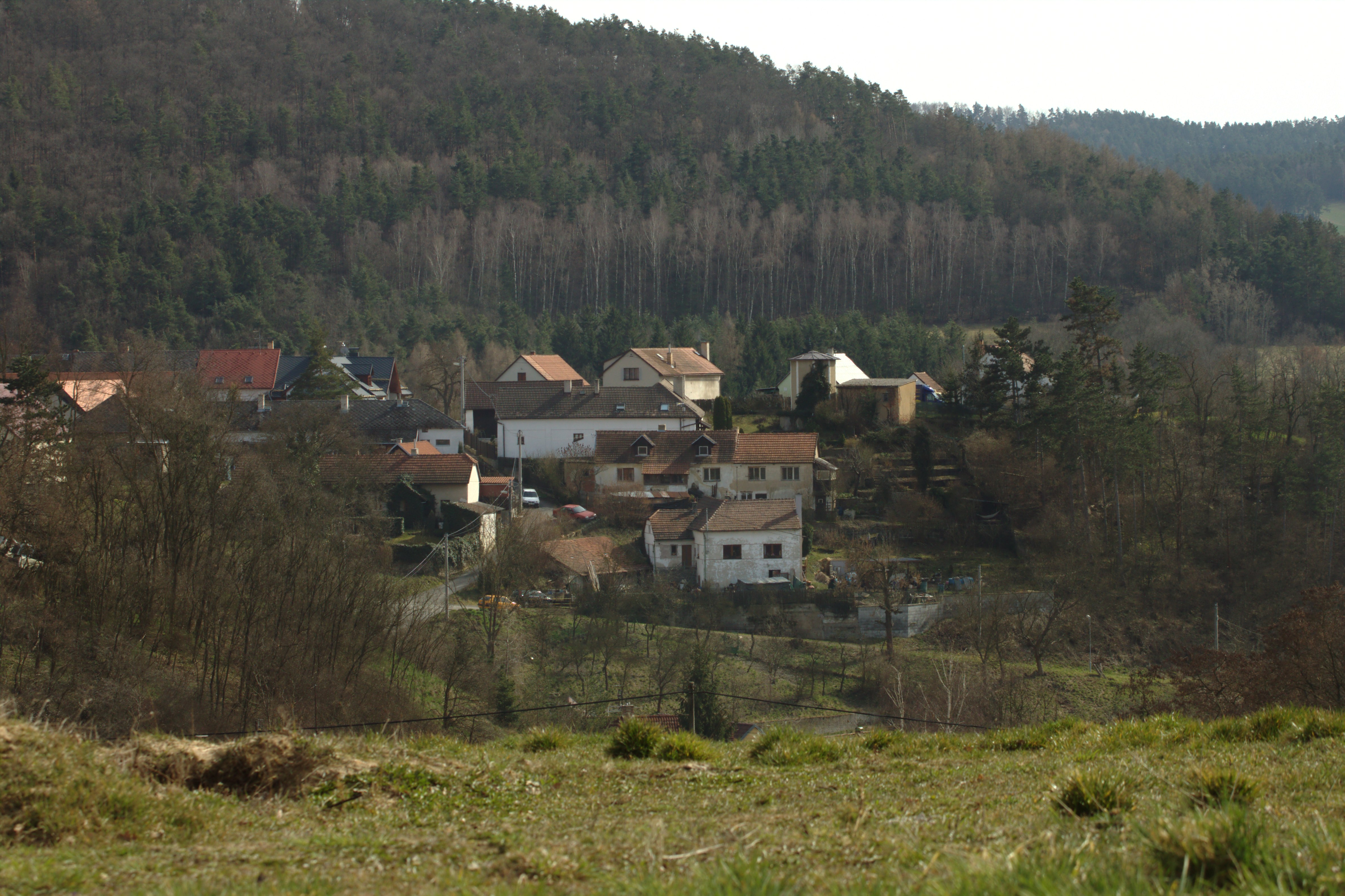 Northern edge of the village of Velká Lečice, Central Bohemian Region, CZ